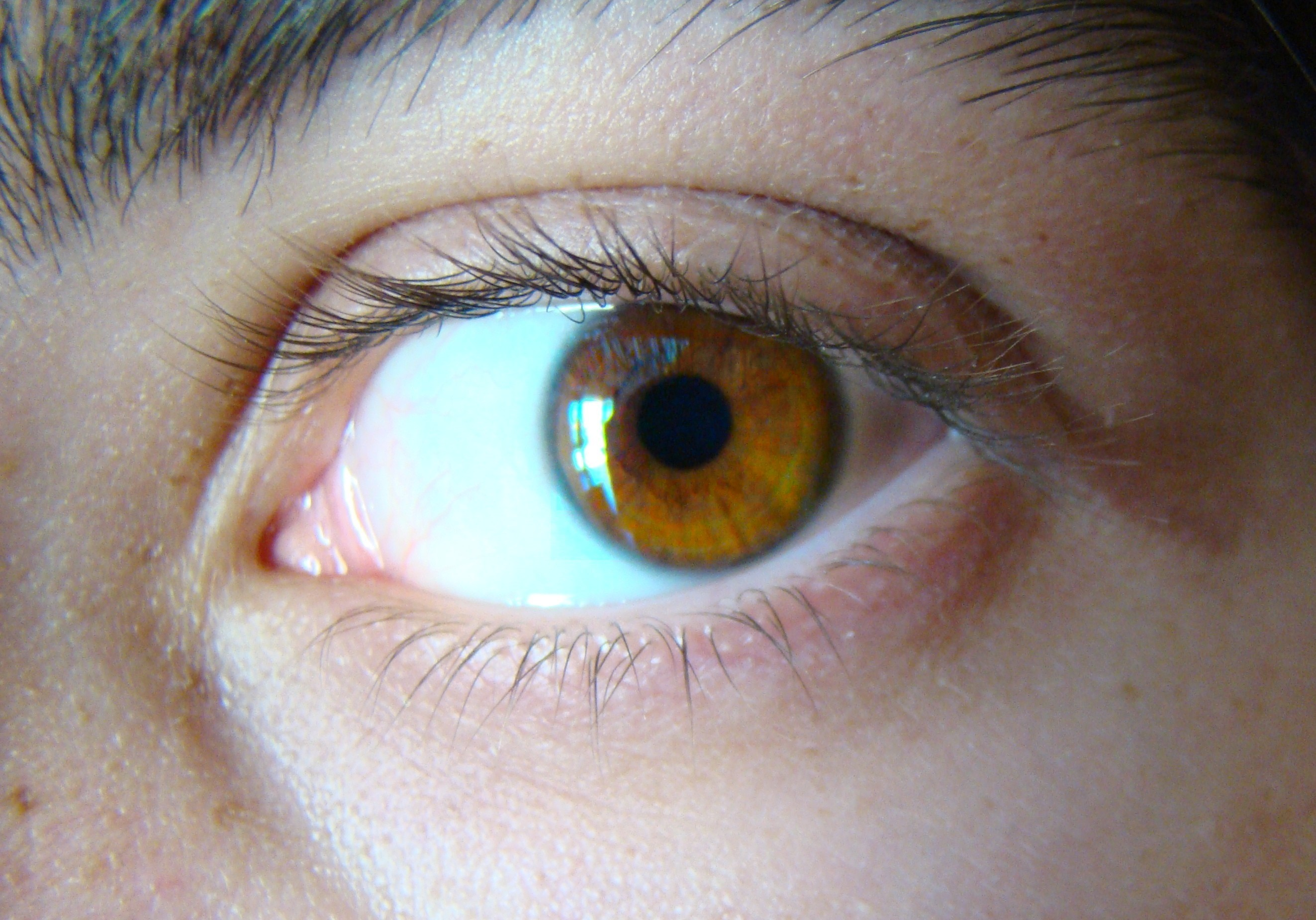 Light Golden Brown Eye (Hazel)